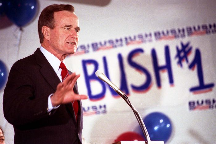 Vice President Bush campaigns for President in Augusta, South Carolina.